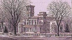 Home of Ithiel Town, Hillhouse Avenue, New Haven. Although designed in the Greek Revival style by Town himself, the building is shown here with later Italianate embellishments (e.g. towers, etc.) added by noted New Haven architect Henry Austin. Yale University would complete the transformation by razing it.